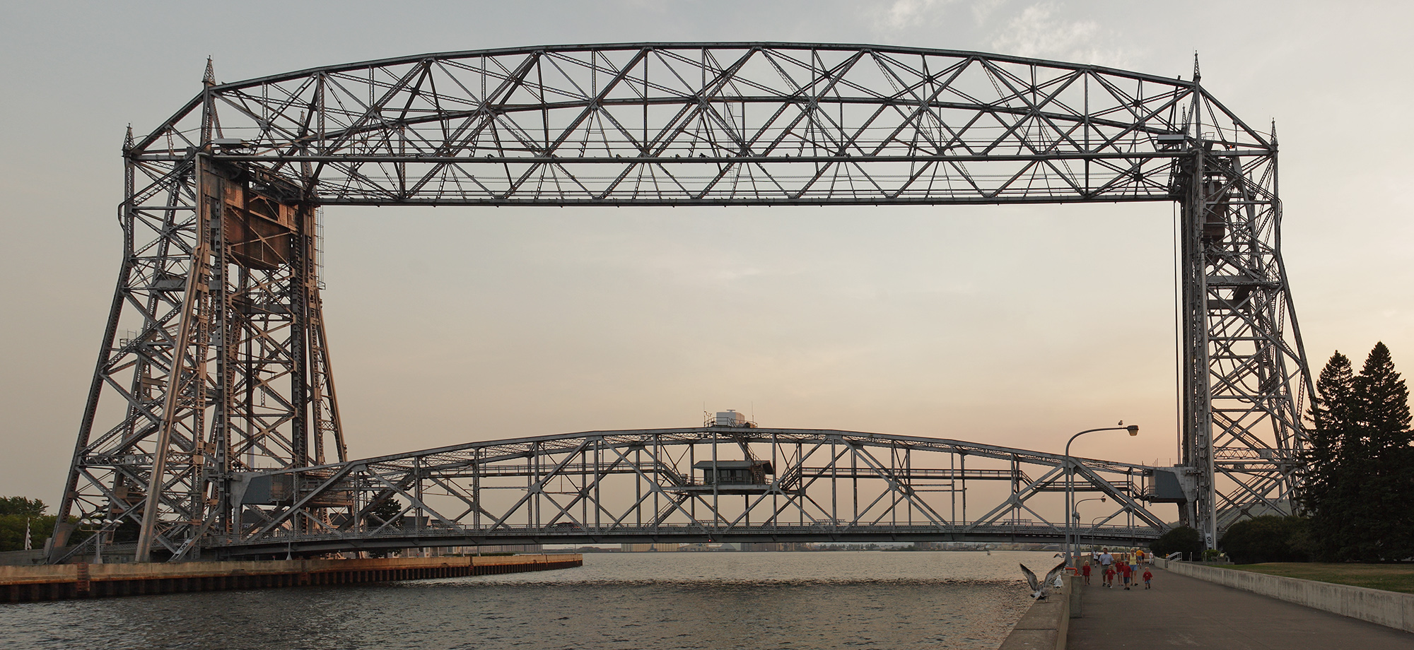 Aerial Lift Bridge, Duluth Minnesota. A 4 image stitched panorama.